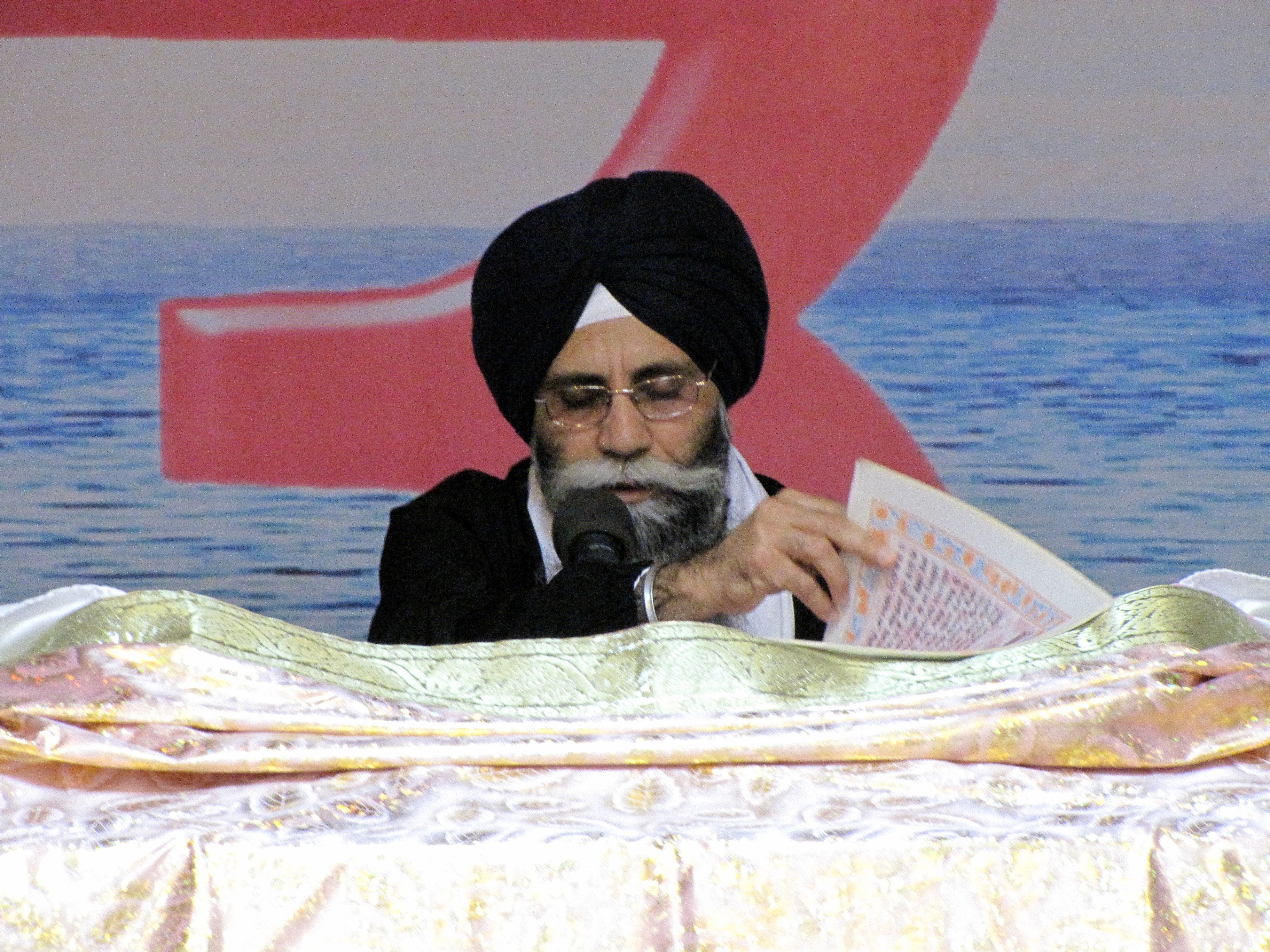 Sikh man reading Hukam, a random verse from the Guru Granth Sahib, during a Sikh gathering in Los Angeles.